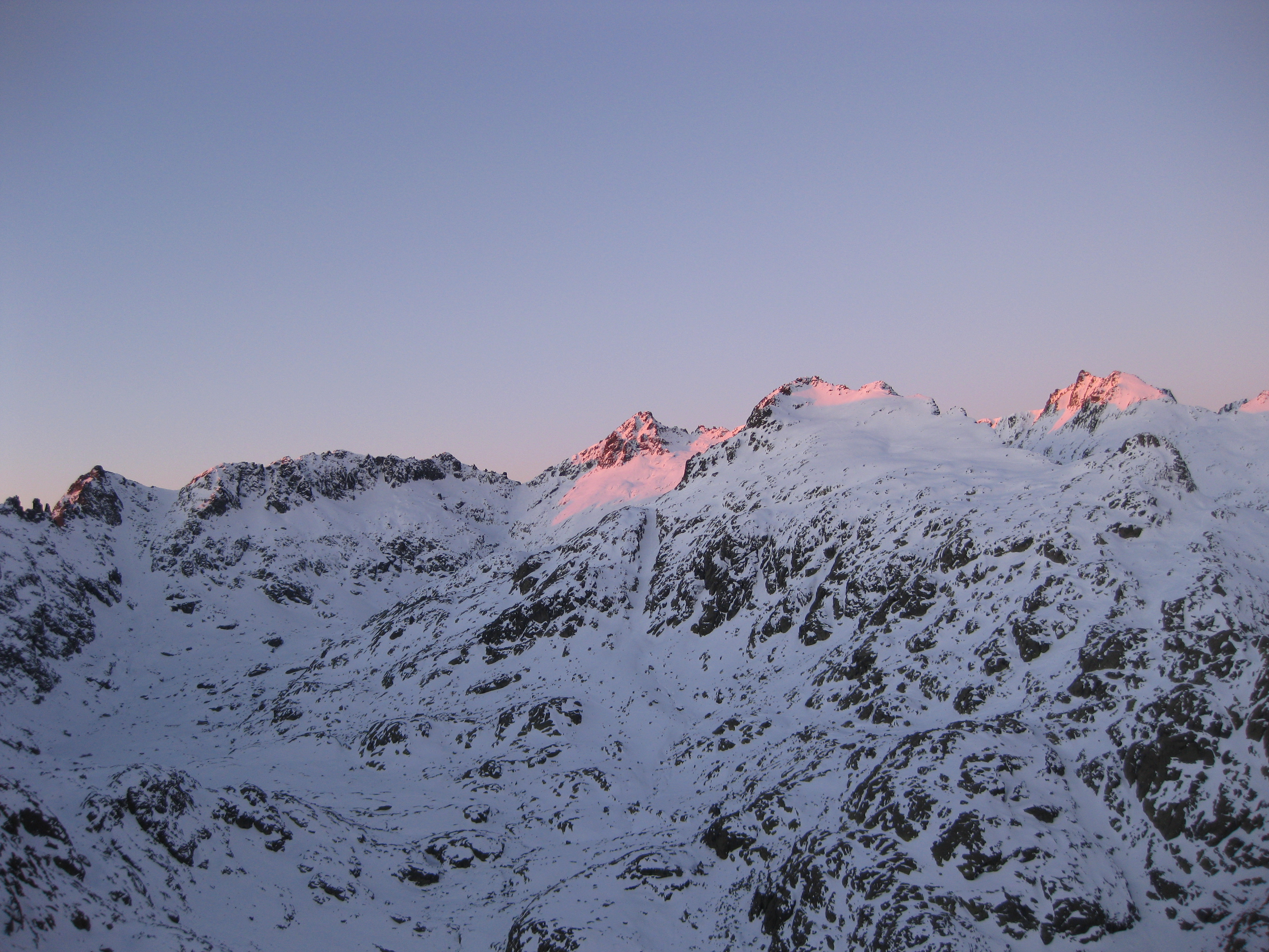 Wintery sunrise in Gredos Circuit. From left to right: Frozen Laguna Grande and Refugio Elola, Almanzor (2592 m) in the center, Risco Moreno (2499 m) and La Galana (2572 m).